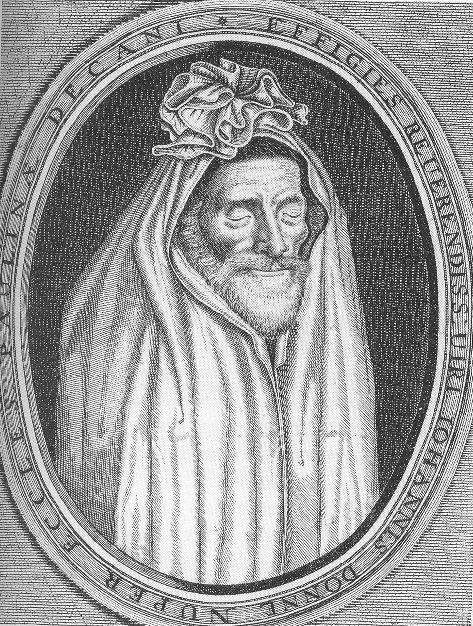 John Donne in his shroud, engraved by Martin Droeshout. He posed in his shroud for the portrait on which the engraving is based in and then kept it on until he died, five weeks later.